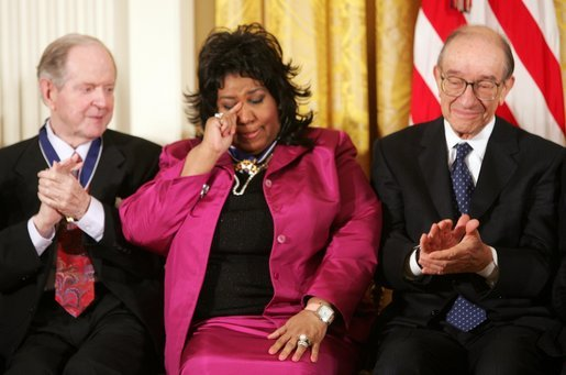 Queen of Soul Aretha Franklin wipes a tear after being honored with the Presidential Medal of Freedom Wednesday, Nov. 9, 2005, during ceremonies at the White House. Looking on are fellow recipients Robert Conquest, left, and Alan Greenspan.